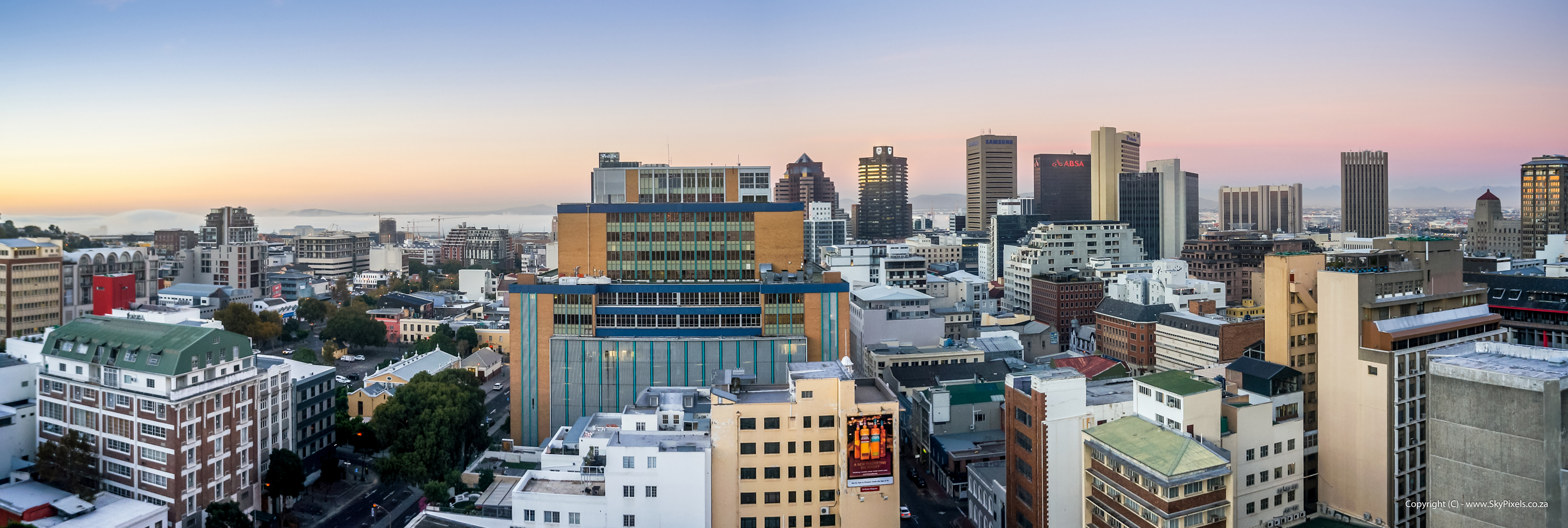 A Skyline View of the inner CBD of Cape Town, facing the harbour.